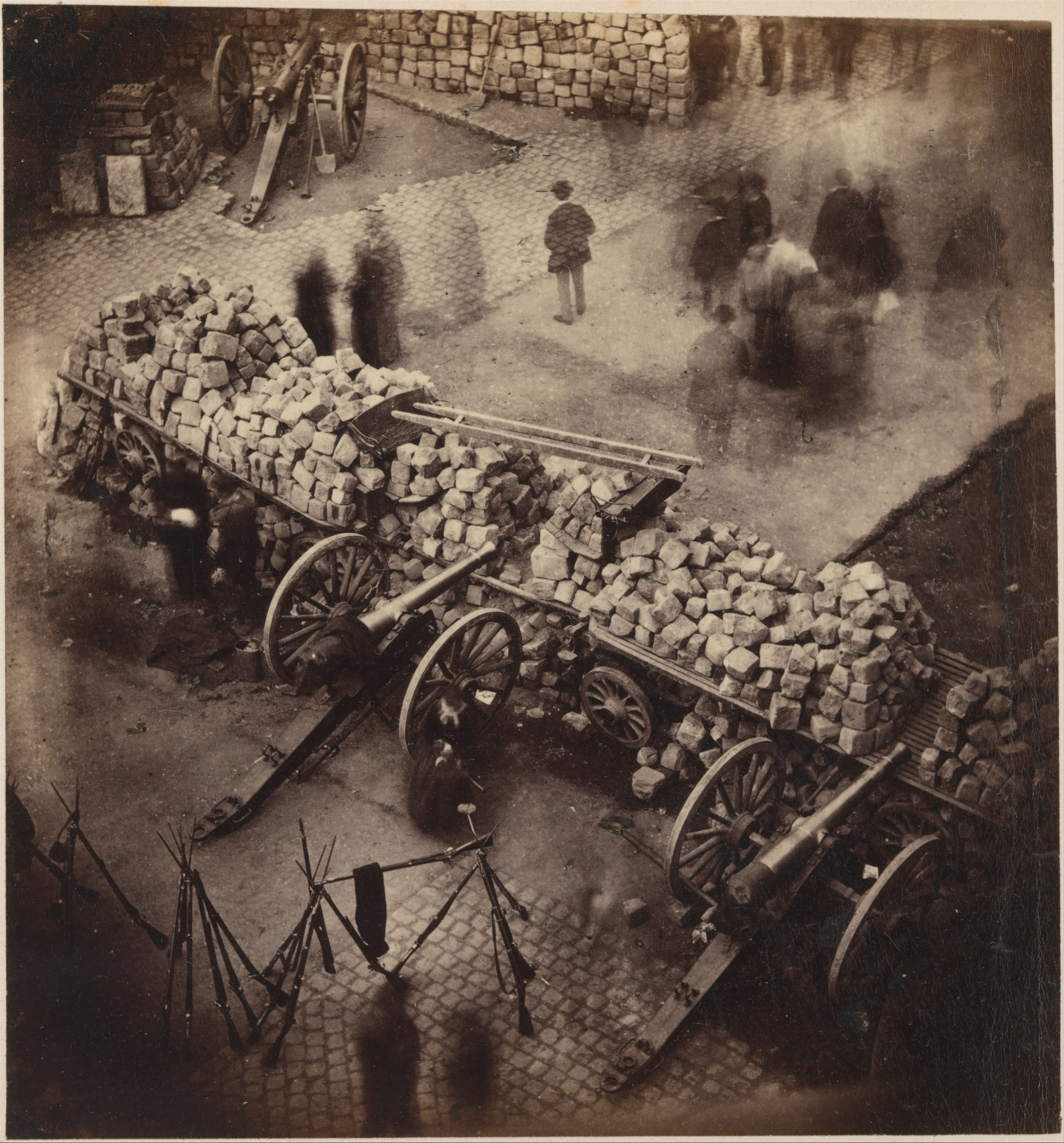 After the Franco-Prussian War (1870-71), Parisians revolted against the new government of Adolphe Thiers, who favored a return to royalty. The anti-establishment Government of the Commune of Paris was proclaimed on March 28, 1871, in opposition to Thiers, who had withdrawn to Versailles with the army. The clash led to weeks of fighting, the government's massacre of an estimated 20,000 people, and the burning, by the Communards, of the major public buildings of Paris, including the Tuileries Palace, the Palais Royal, and the Hôtel de Ville (city hall). Numerous photographs exist of the ruins of Paris after the events of 1871, but Richebourg was one of the few photographers to capture preparations for war: guns propped against one another in makeshift arrangements, cannons rolled into position, carts piled high with cobblestones leaving rough gaps in the paved street. While barricades were generally photographed at street level, Richebourg's image, made from above, offers a detached, formally stunning view. The bold diagonal created by the stone still life of the barricade is countered by the sense of immediacy rendered by the fleeting presence of Communards and observers who moved during exposure.